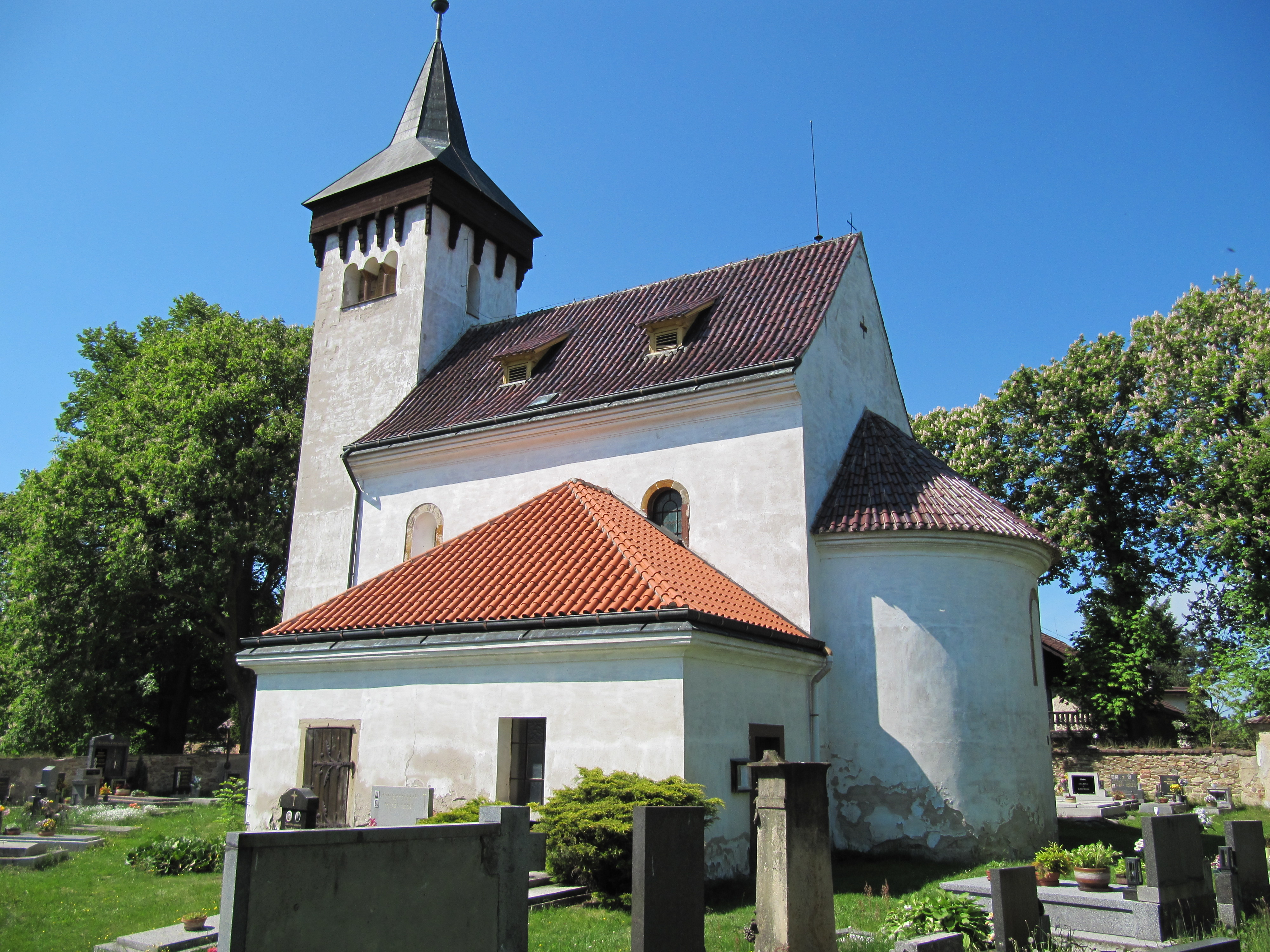 Skvrňov in Kolín District, Czech Republic. Romanesque church of Saint Gall.